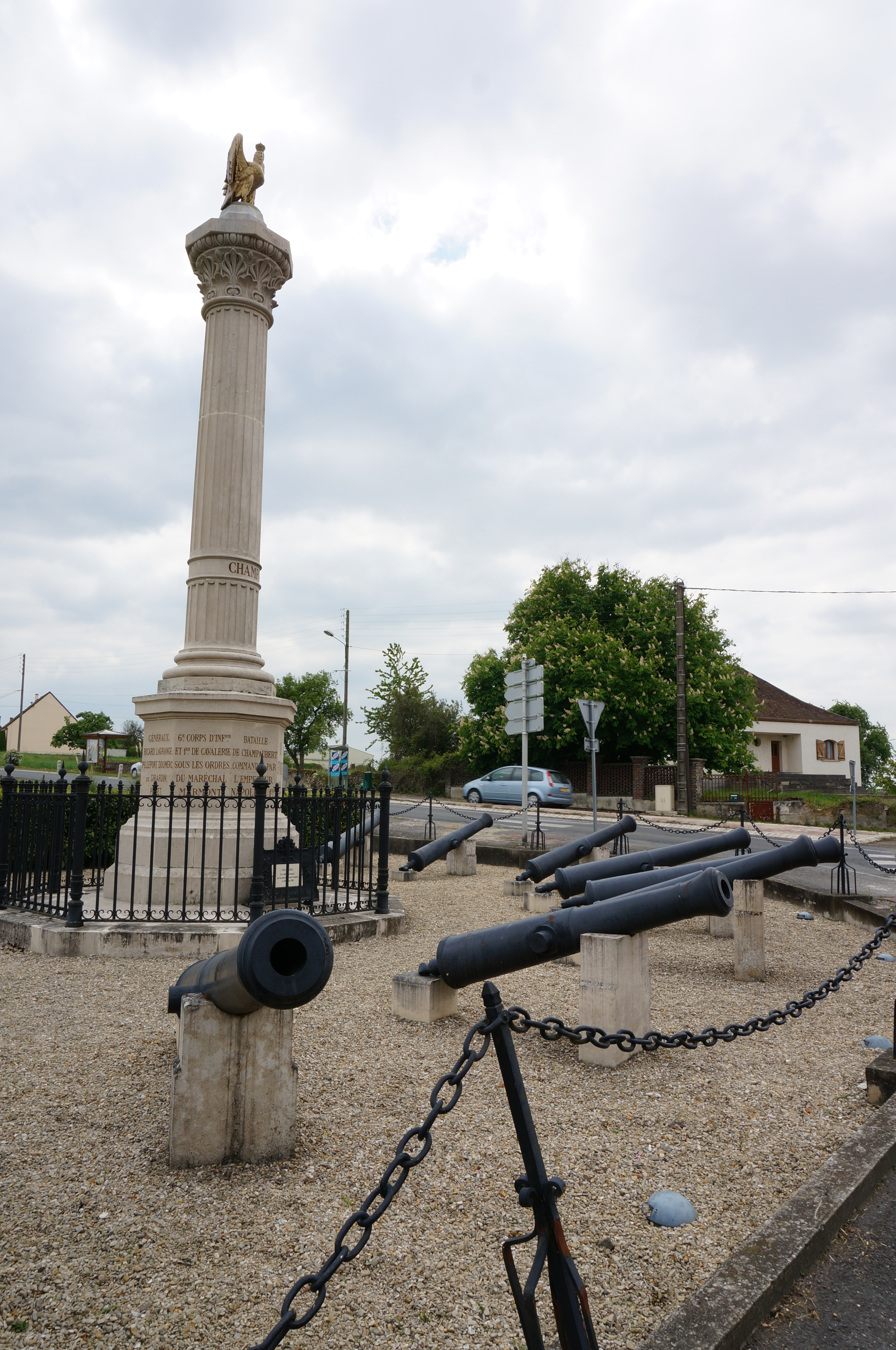 War memorial, battles Champaubert, Marchais-en-Brie, Montmirail